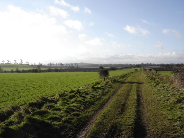 Portway. Path of Roman road near Grateley.